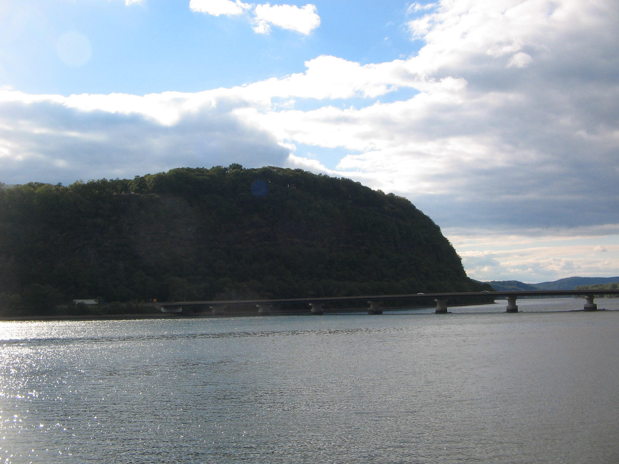 Shikellamy State Park Overlook in Union County, Pennsylvania, USA, as seen from the Shikellamy State Park Marina unit on Packer Island in the Susquehanna River.